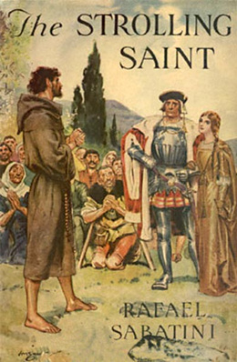 The Strolling Saint by Rafael Sabatini